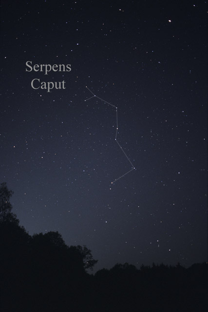 Photography of the constellation Serpens Caput, the head of the serpent